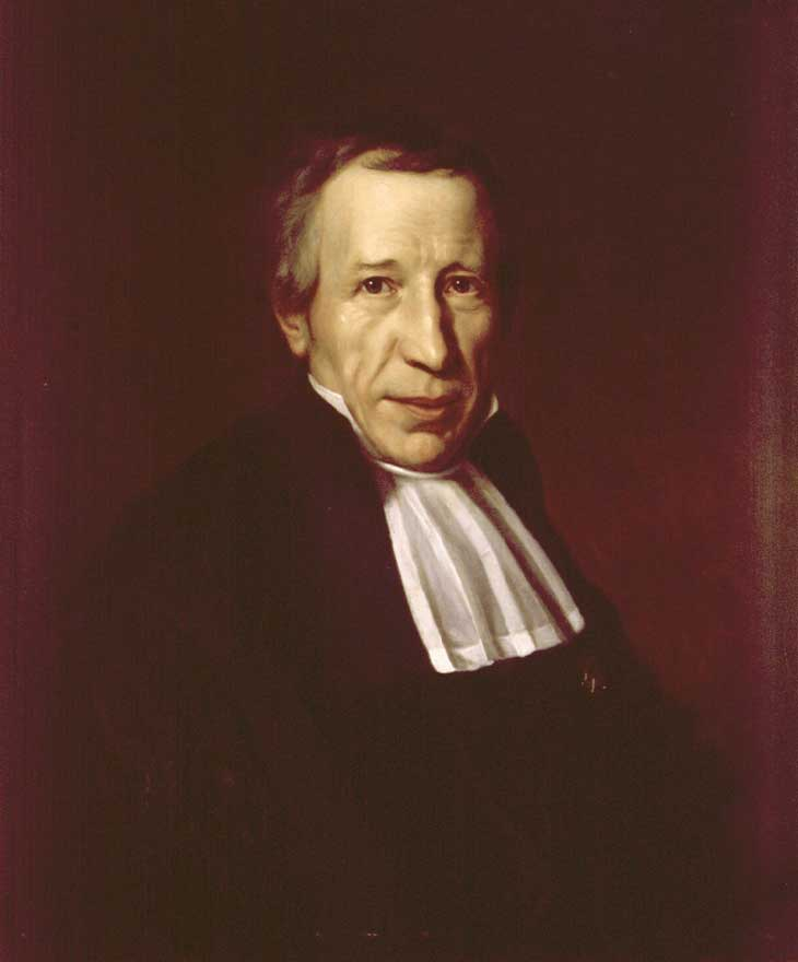 Johannes Friedrich Ludwig Schröder also: Johannes Frederik Lodewijk Schröder (1774-1845), German theologian and mathematician (lutheran theologian)